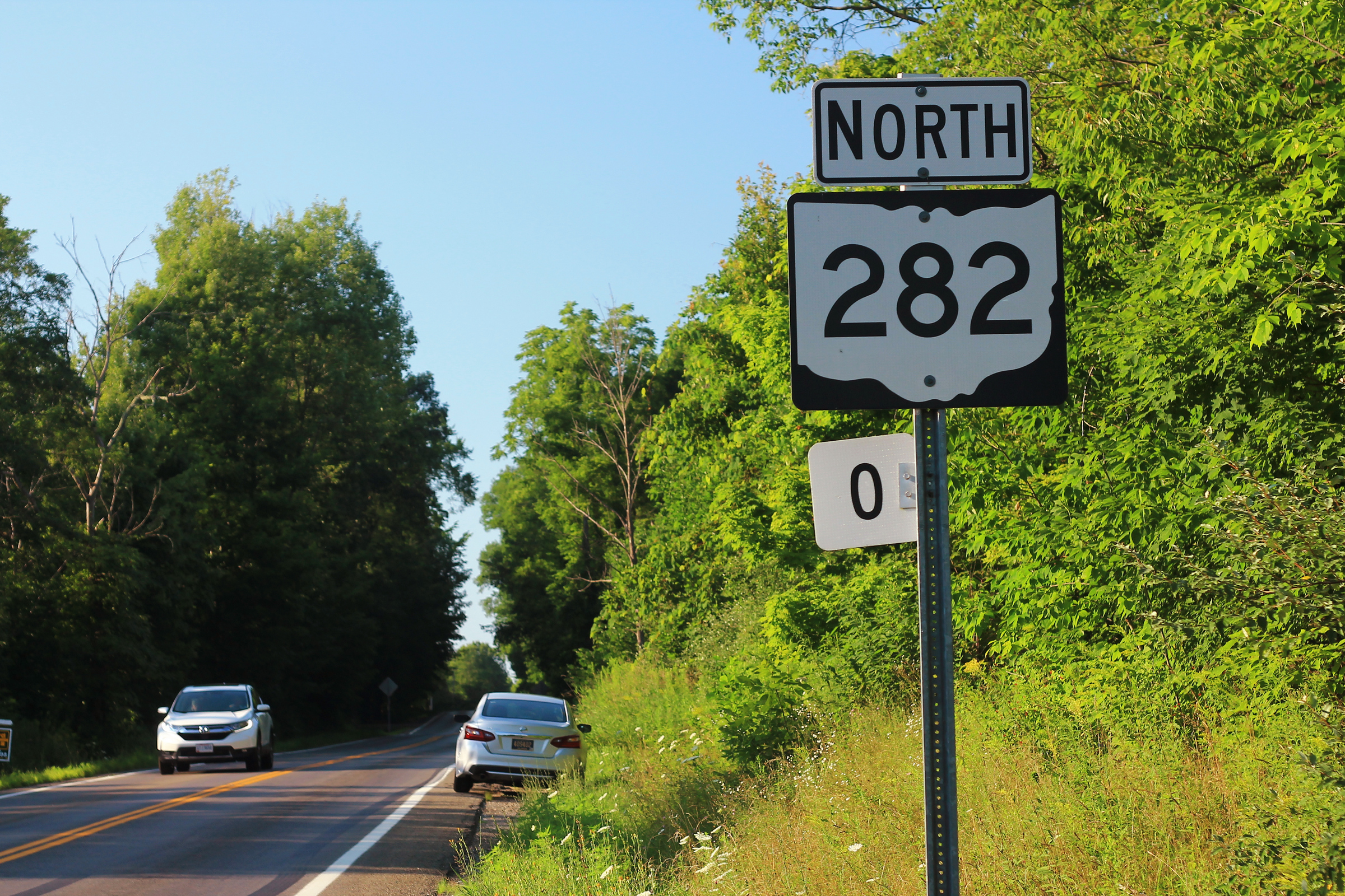 Start of Ohio Route 282; the little number zero denotes the mileage within the county.